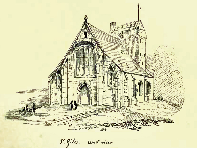 Book out of copyright - Cramond, William, Records of Elgin, Aberdeen, 1903; p 447